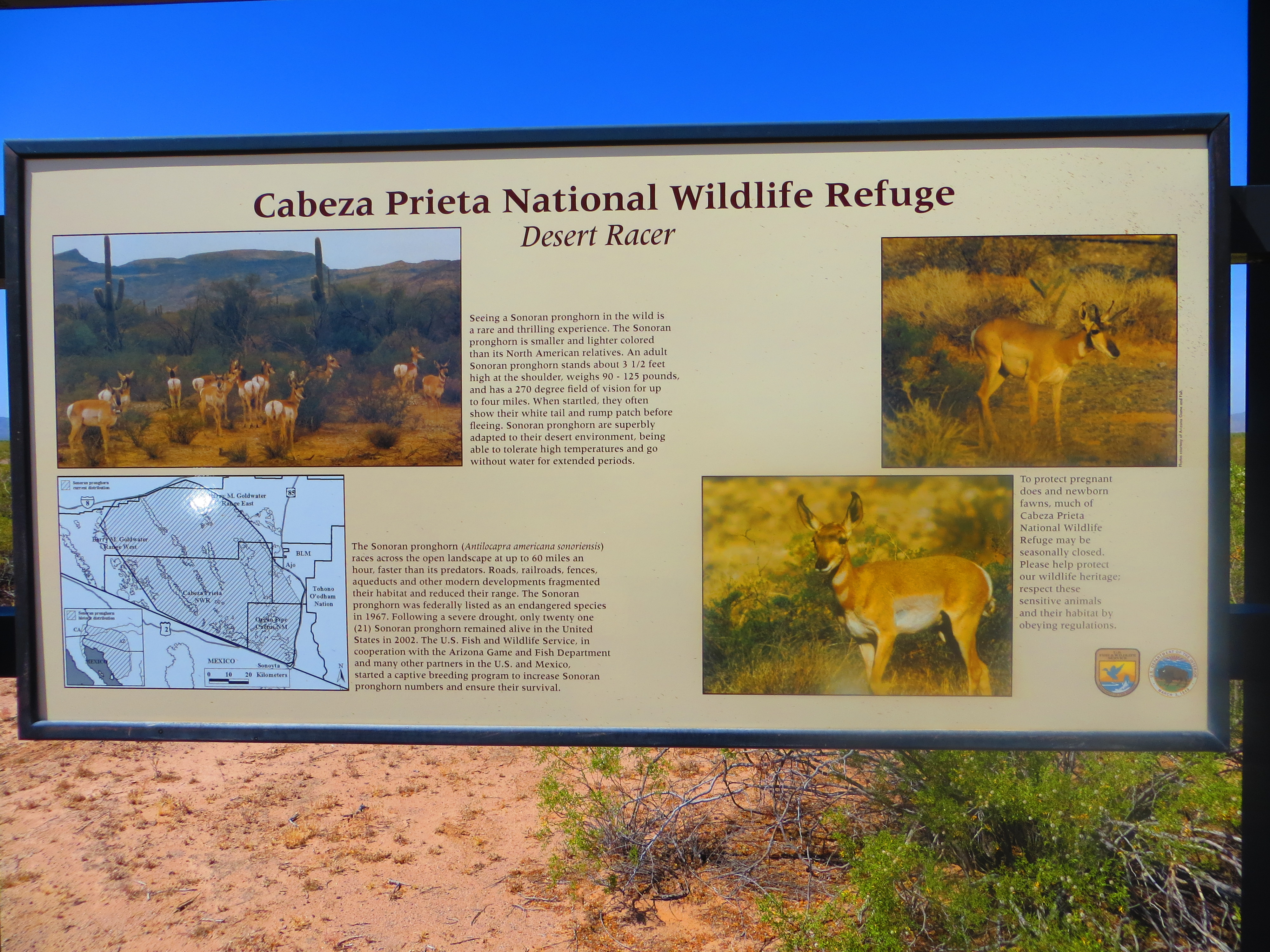 sign along El Camino Del Diablo roadside at eastern entrance to Cabeza Prieta National Wildlife Refuge.